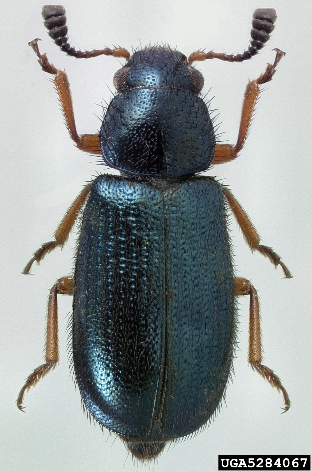 Dorsal view of the Red-legged Ham Beetle, Necrobia rufipes